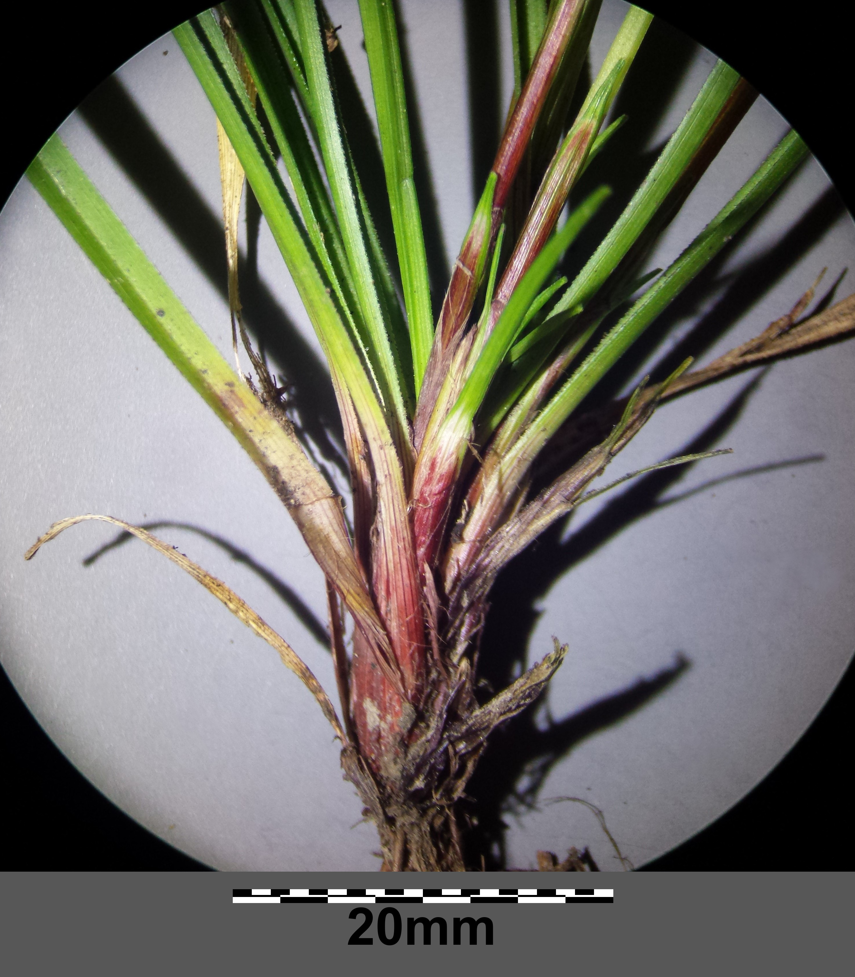 Base of stems with reddish-purple basal leaf sheaths Taxonym: Carex digitata ss Fischer et al. EfÖLS 2008 ISBN 978-3-85474-187-9 Location: Rohrwald, district Korneuburg, Lower Austria - ca. 280 m a.s.l. Habitat: Carpinion betuli